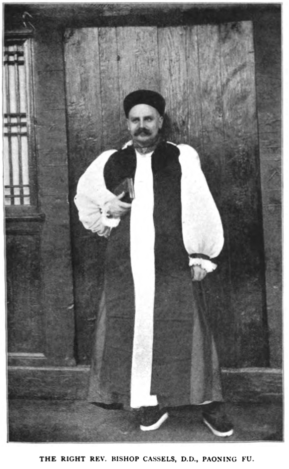 The caption of the picture reads: The right Rev. Bishop Cassels, D.D. Paoning Fu. (Photography published in 1899, page 287 of book "The Yangtze Valley and Beyond")